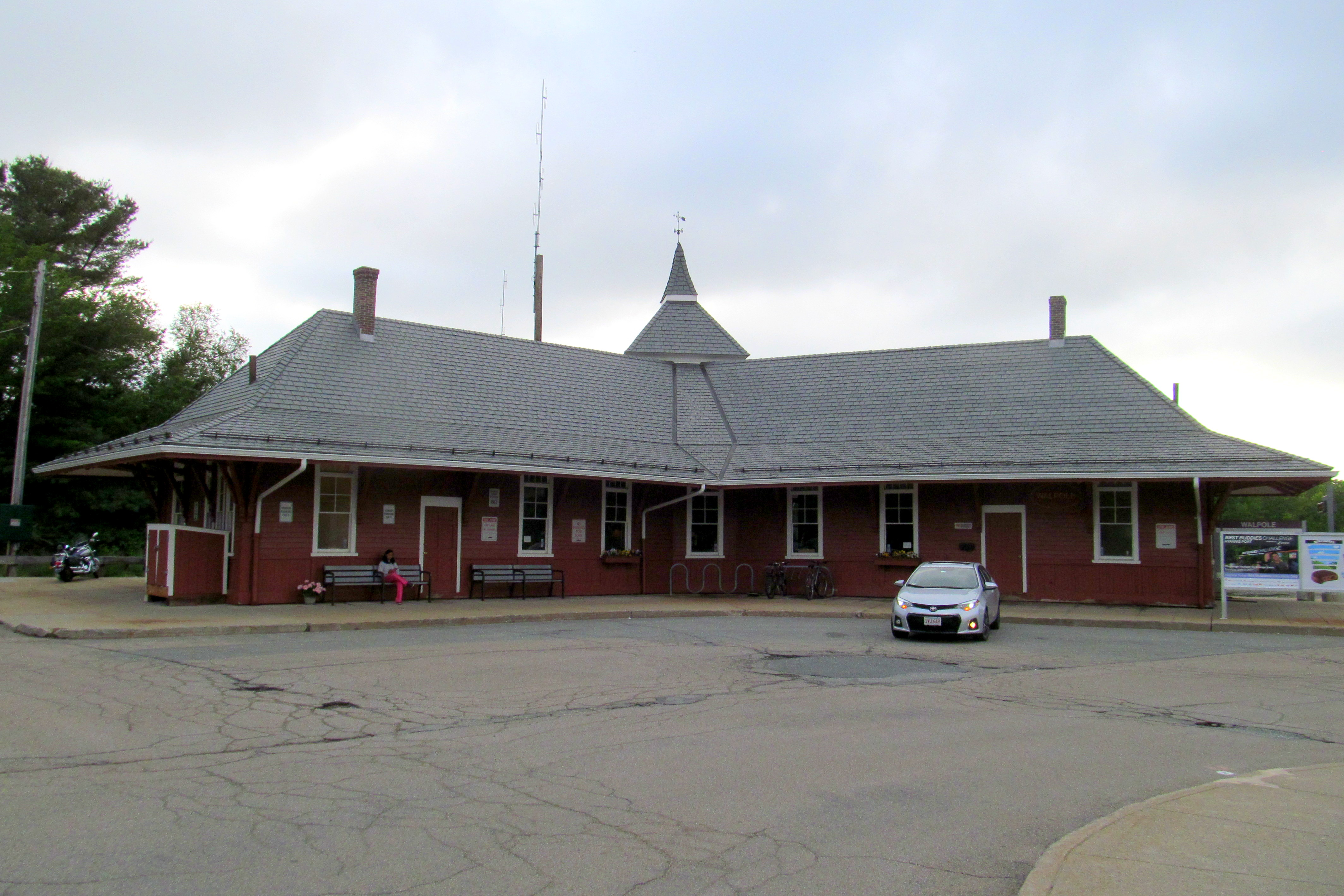 Walpole Union Station in May 2017